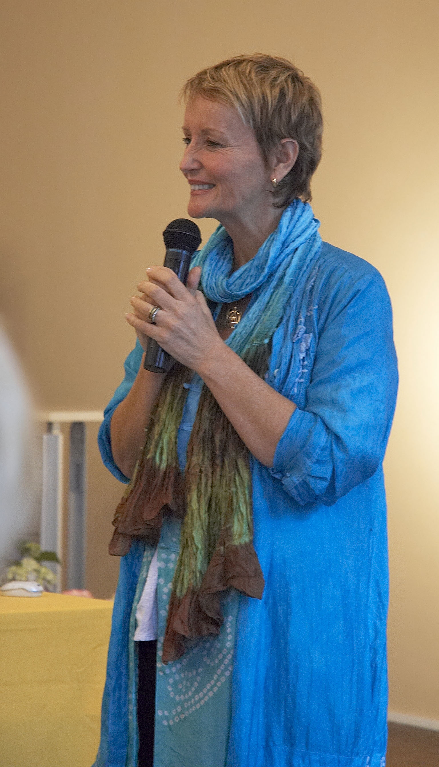 Jasmuheen in Belgium 2008